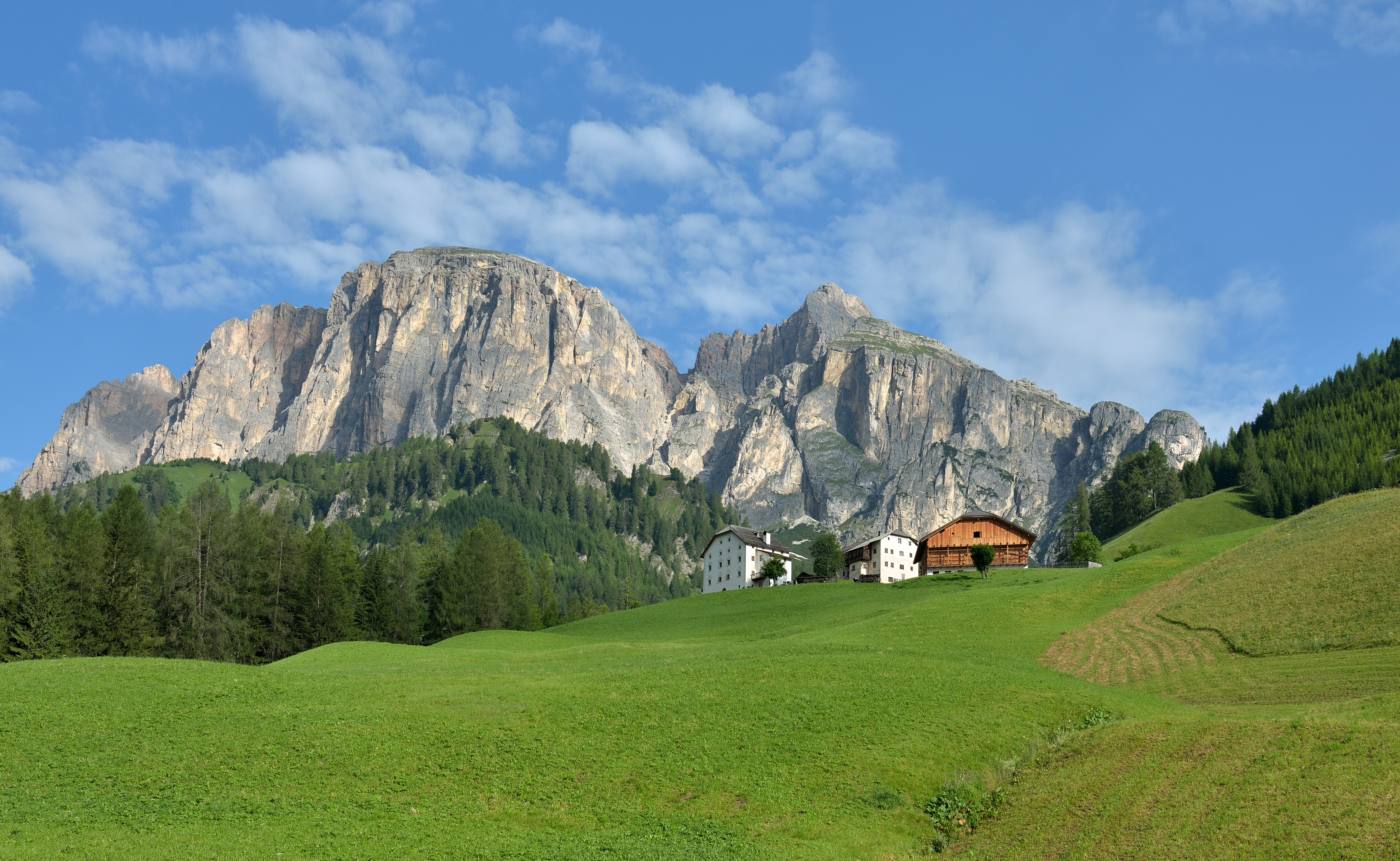 Alpine farmhouse "Sorà" on the left and "Zecca da Ruatscht" in Calfosch